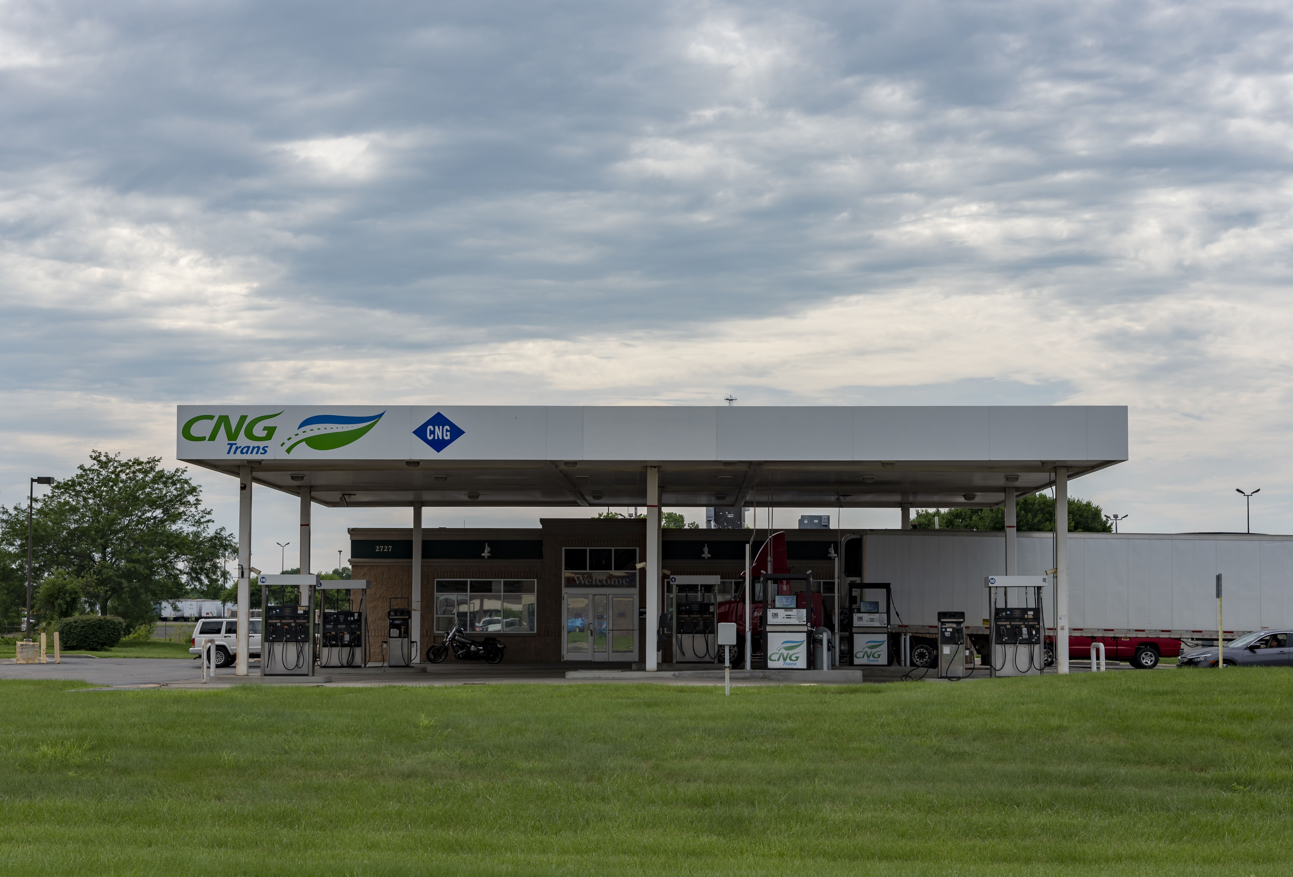 The front of a Compressed natural gas, CNG Trans Filling Station on Brice Road, in Columbus, Ohio during a stormy summer afternoon.